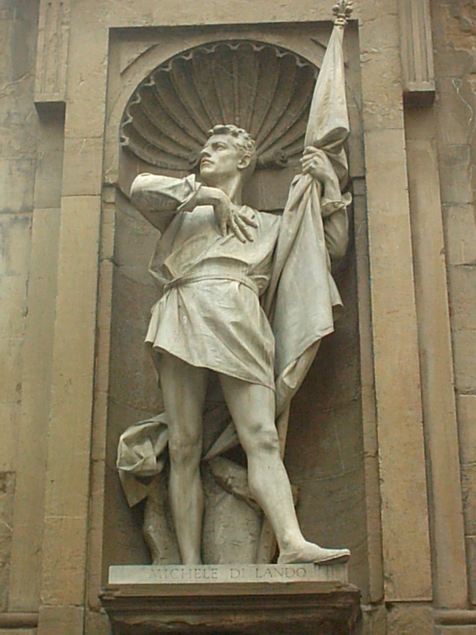 The 14th century political leader Michele di Lando. Statue in the Loggia del Mercato Nuovo in Florence (Italy).